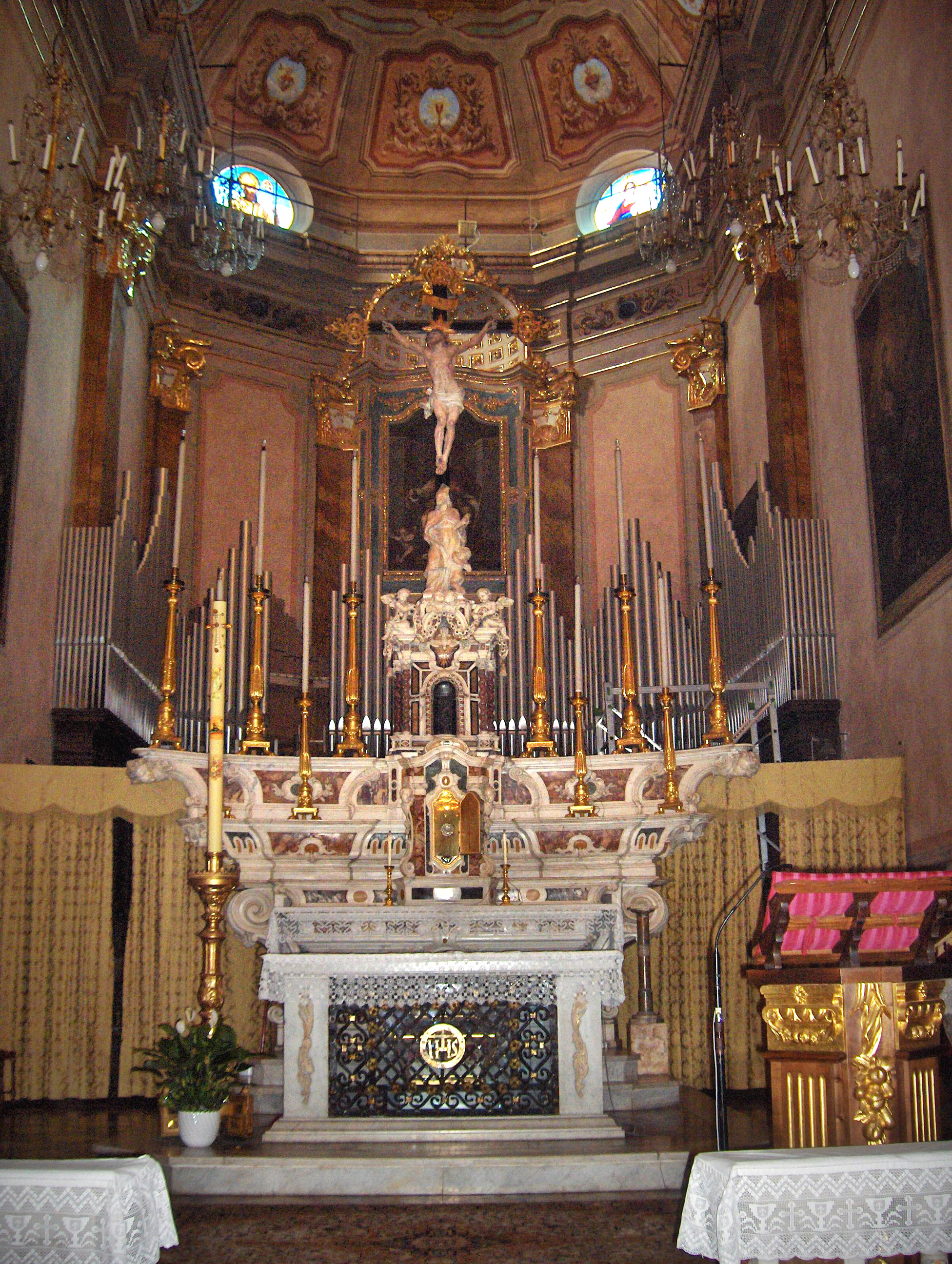 Main altar; statuette of Saint Ambrose atop the tabernacle; Church of S. Ambrogio; Alassio, Italy